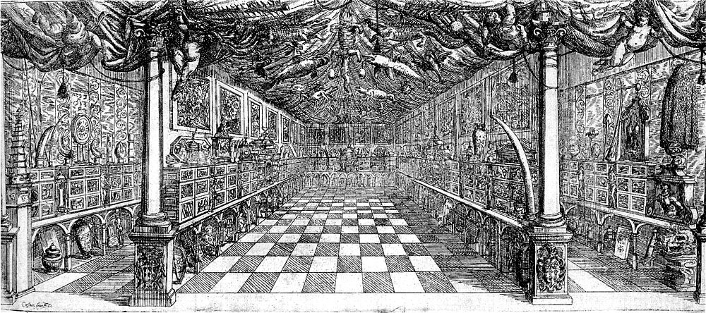 Manfredo Settala's Cabinet of curiosities. From "Museo o Galeria" (1666)